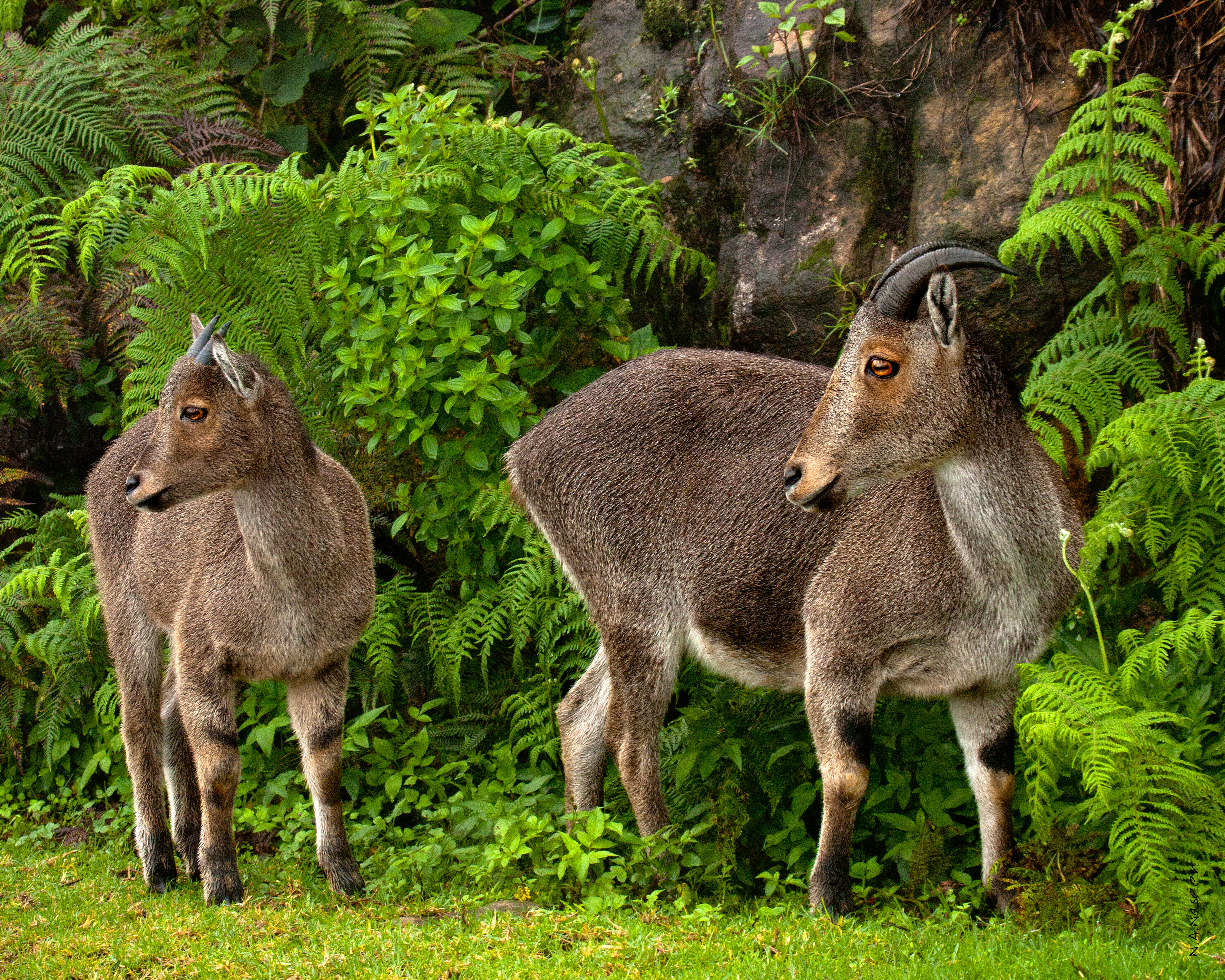 Nilgiri tahr (Nilgiritragus hylocrius)